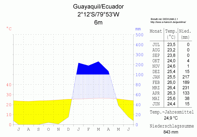 climate chart in the format by Walther and Lieth, metric, °Celsisus and millimeters, made with Geoklima 2.1